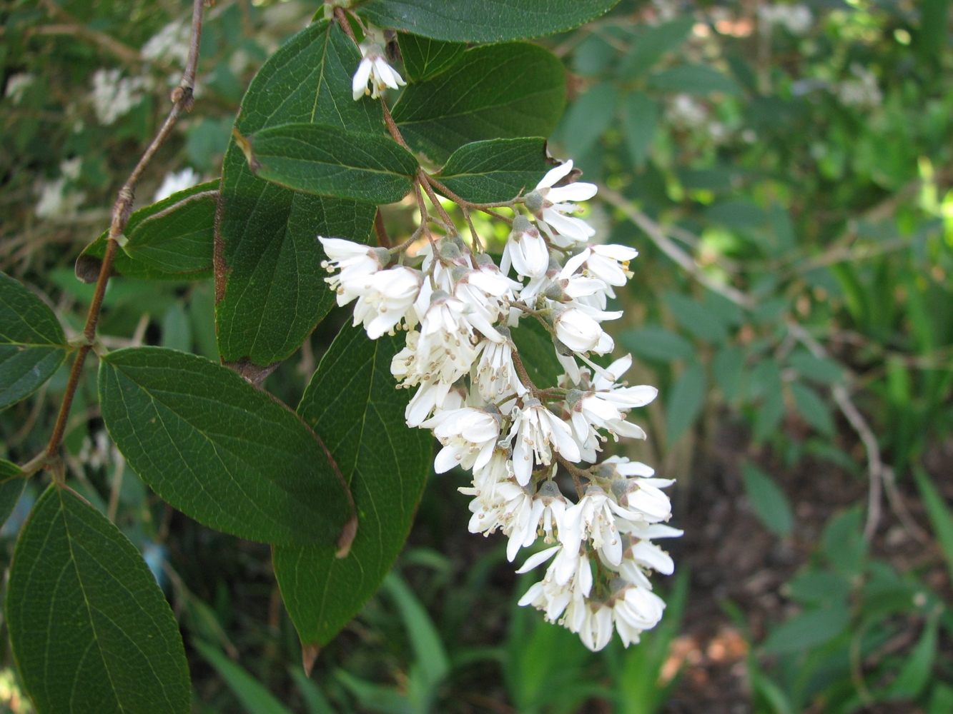 Deutzia ningpoensis (cultivated, labelled) Royal Botanic Gardens, Melbourne, Australia